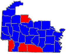 Results of the Arkansas District 4 United States House of Representatives elections in Arkansas, 2010 Mike Ross (D) Beth Anne Rankin (R) Josh Drake (G)